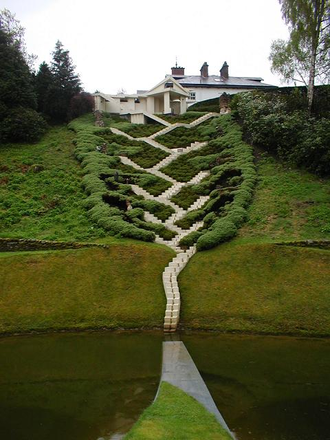 Zig zag steps. Garden of Cosmic Speculation. Dumfries & Galloway.